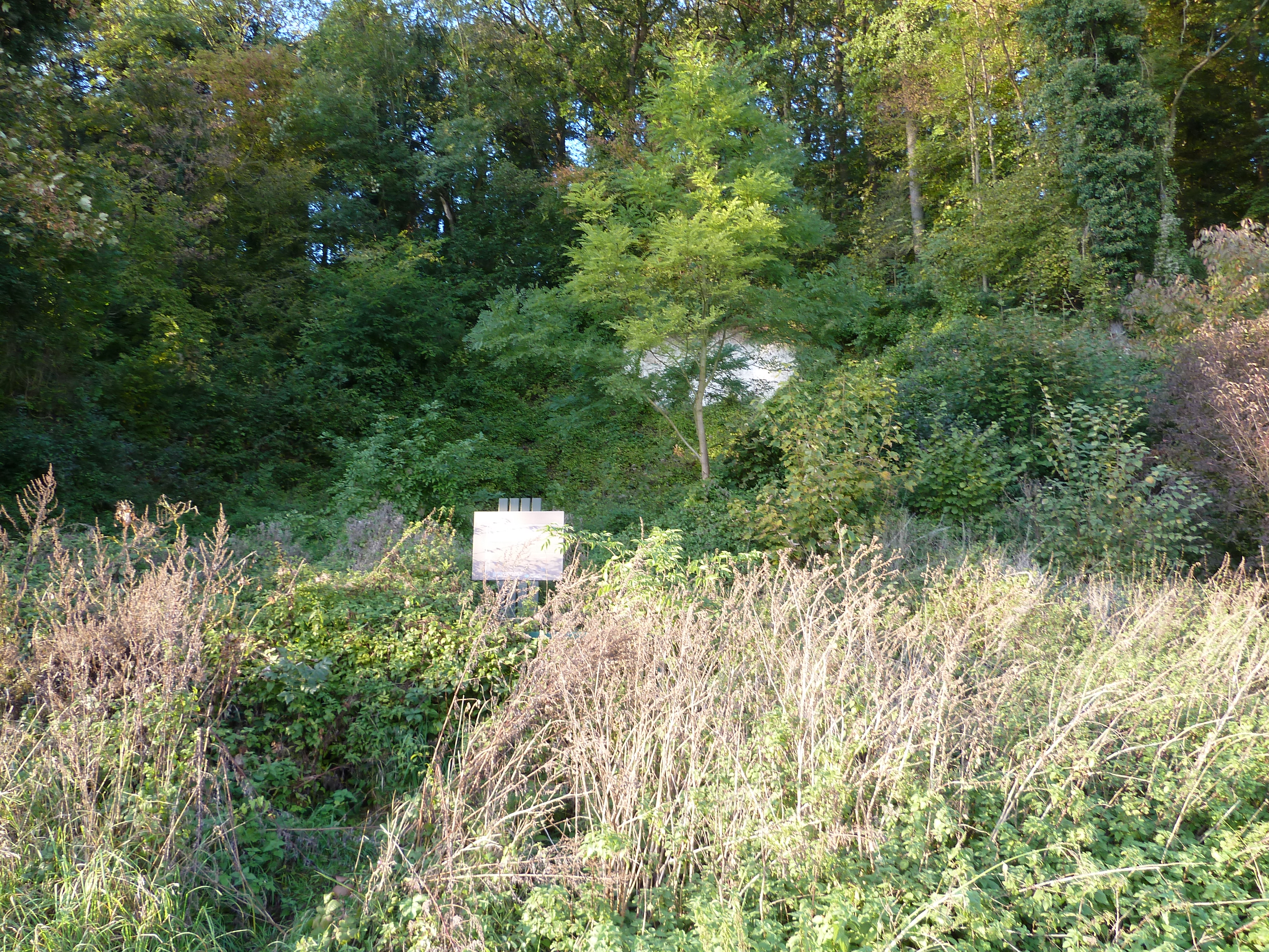 Geological monument Moerslag, Sint-Geertruid, Limburg, the Netherlands